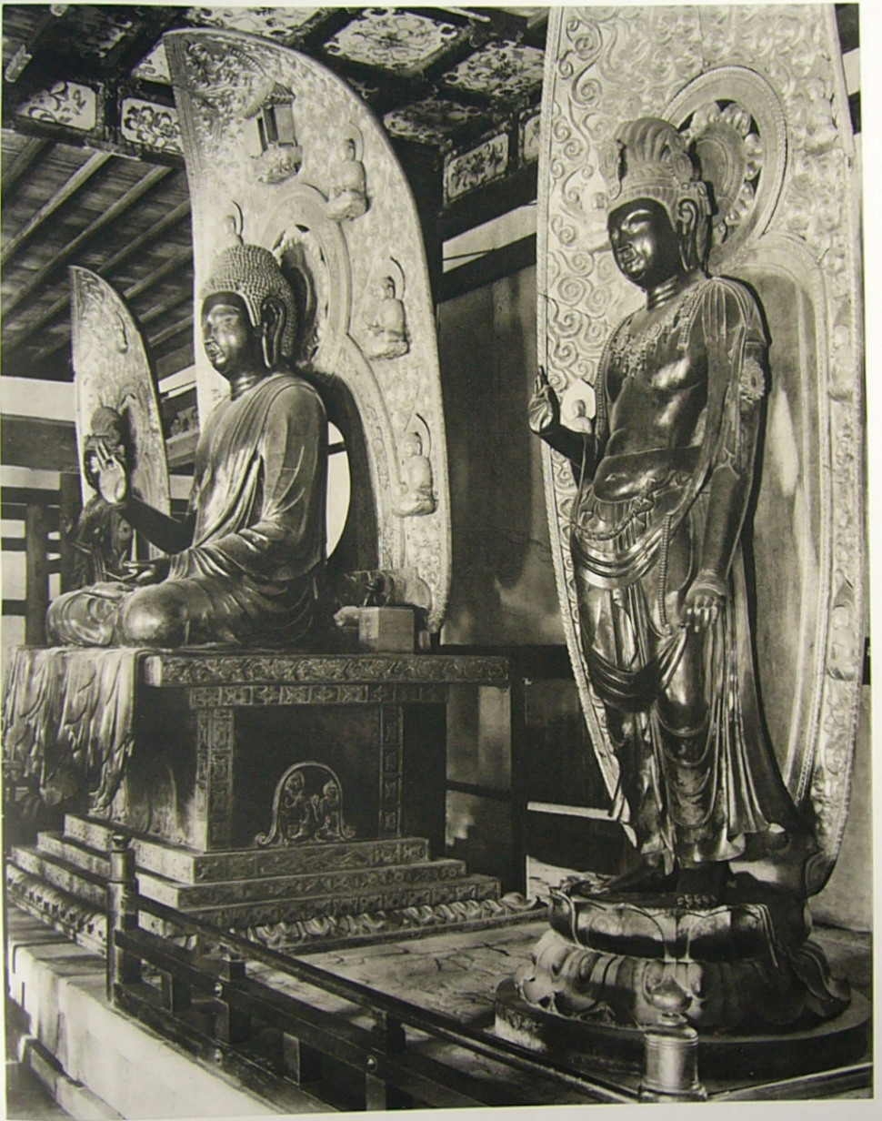 Triad of Yakushi Nyorai (Bhaisajyaguruvaidurya-tathagata), 255cm height (center), 318cm height (attendannts), bronze, early 8th century?, Yakushi-ji, Nara, Japan